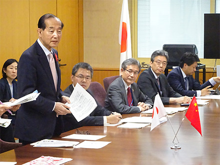 Xie Zhenhua, Special Representative on Climate Change Affairs, talked with Yoshiaki Harada, Minister of the Environment, in Japan on October 11, 2018.